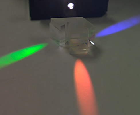 A bare color-separation beam-splitter prism assembly of the type used in some Three-CCD cameras.